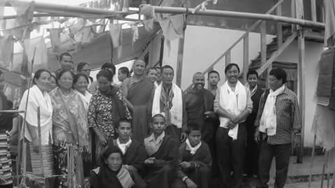 tendong historic pic